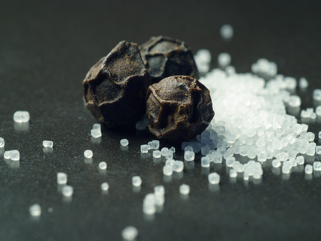 Table salt and peppercorns. Photographer: Jon Sullivan